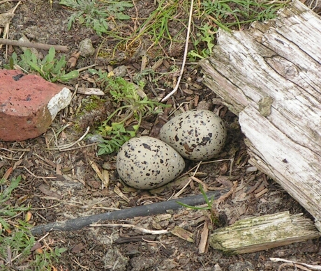 nest with eggs of Charadrius hiaticula